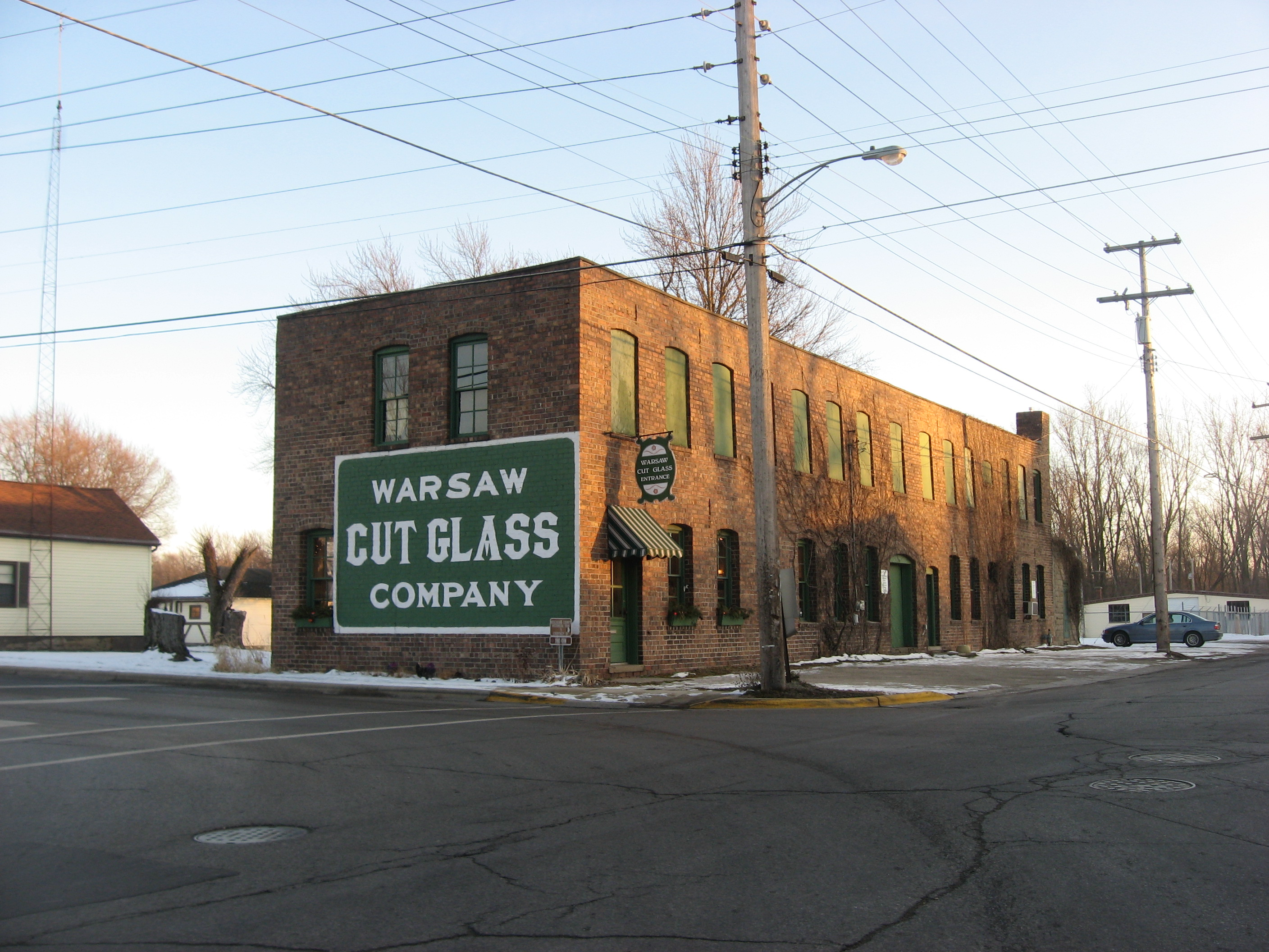 Front and northern end of the Warsaw Cut Glass Company, located at 505 S. Detroit Street in Warsaw, Indiana, United States. Built in 1911, it is listed on the National Register of Historic Places.